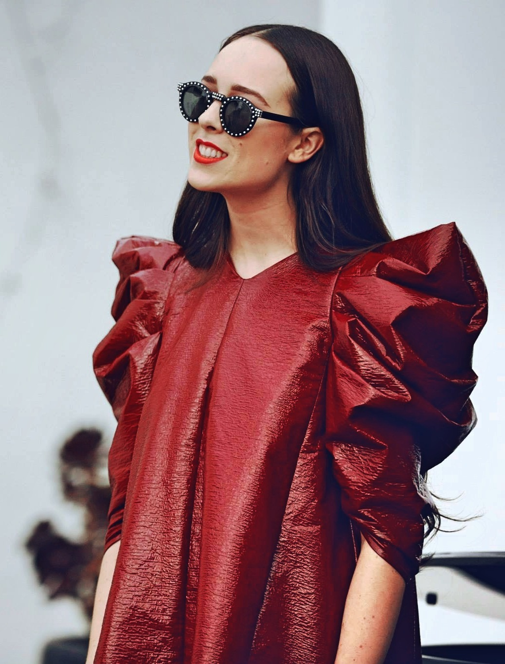 Allie X at the SOCAN Canada's Day Family and Friends Bash on July 7, 2015 in Toronto, Canada.